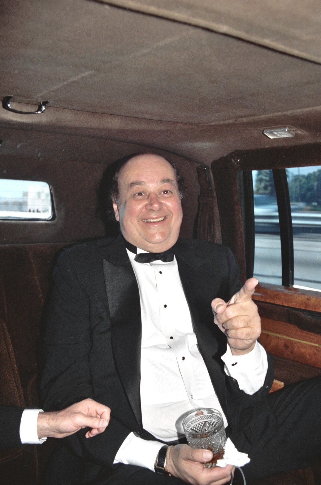 Shel Dorf in the limousine on the eway to the 1988 Academy Awards NOTE: Permission granted to copy, publish, broadcast or post any of my photos, but please credit "photo by Alan Light" if you can. Thanks. Scanned from the original 35MM film negative. depicted person: Shel Dorf (age: 54)